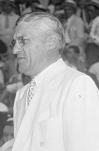 Will Harridge at the 1937 All-Star Game in Washington, D.C.